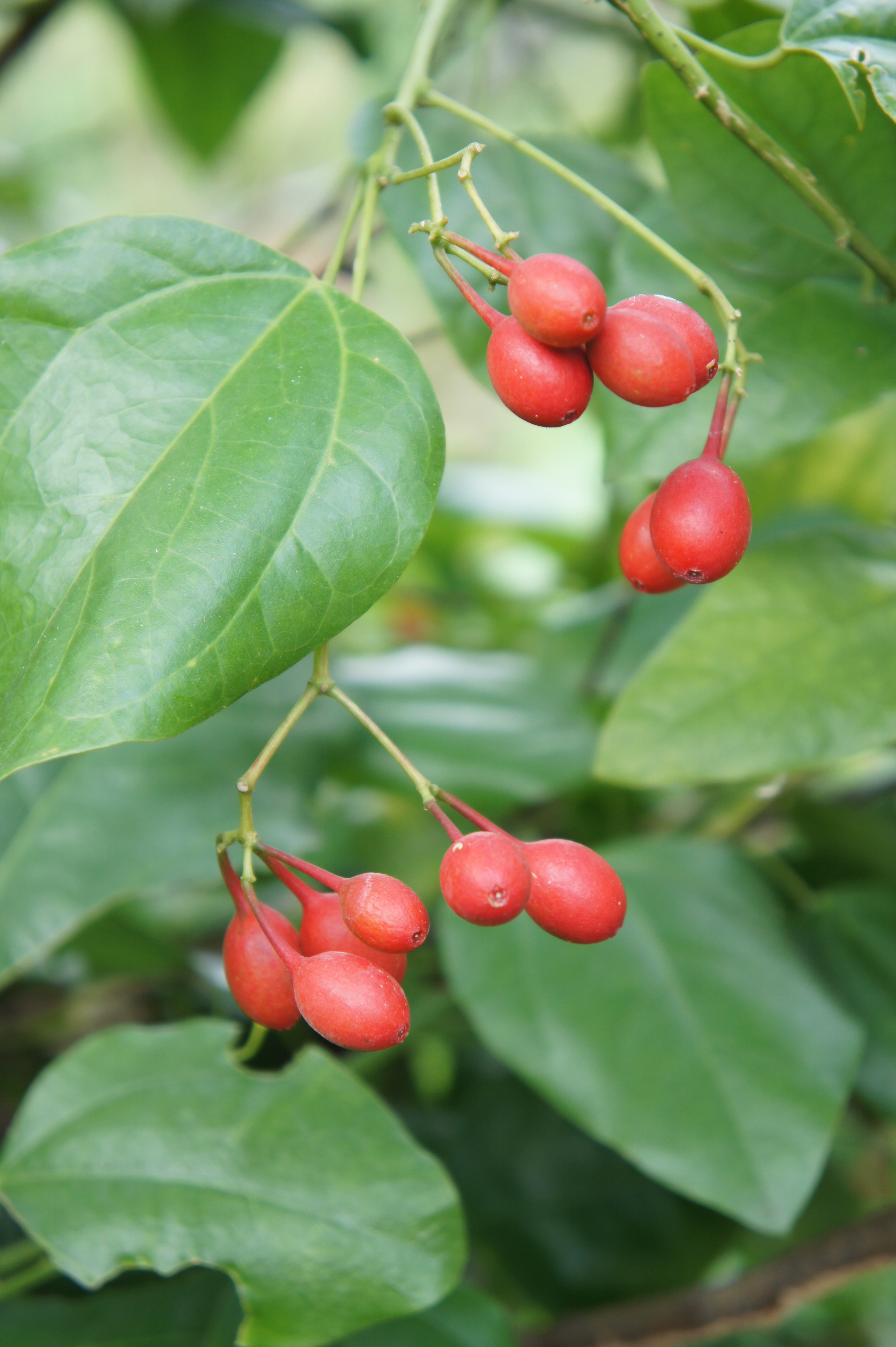 Close-up of the bo khai leaves and fruits. This leafy vegetable has distinctive taste and texture. Locality: North Vietnam, Bac Kan Province.